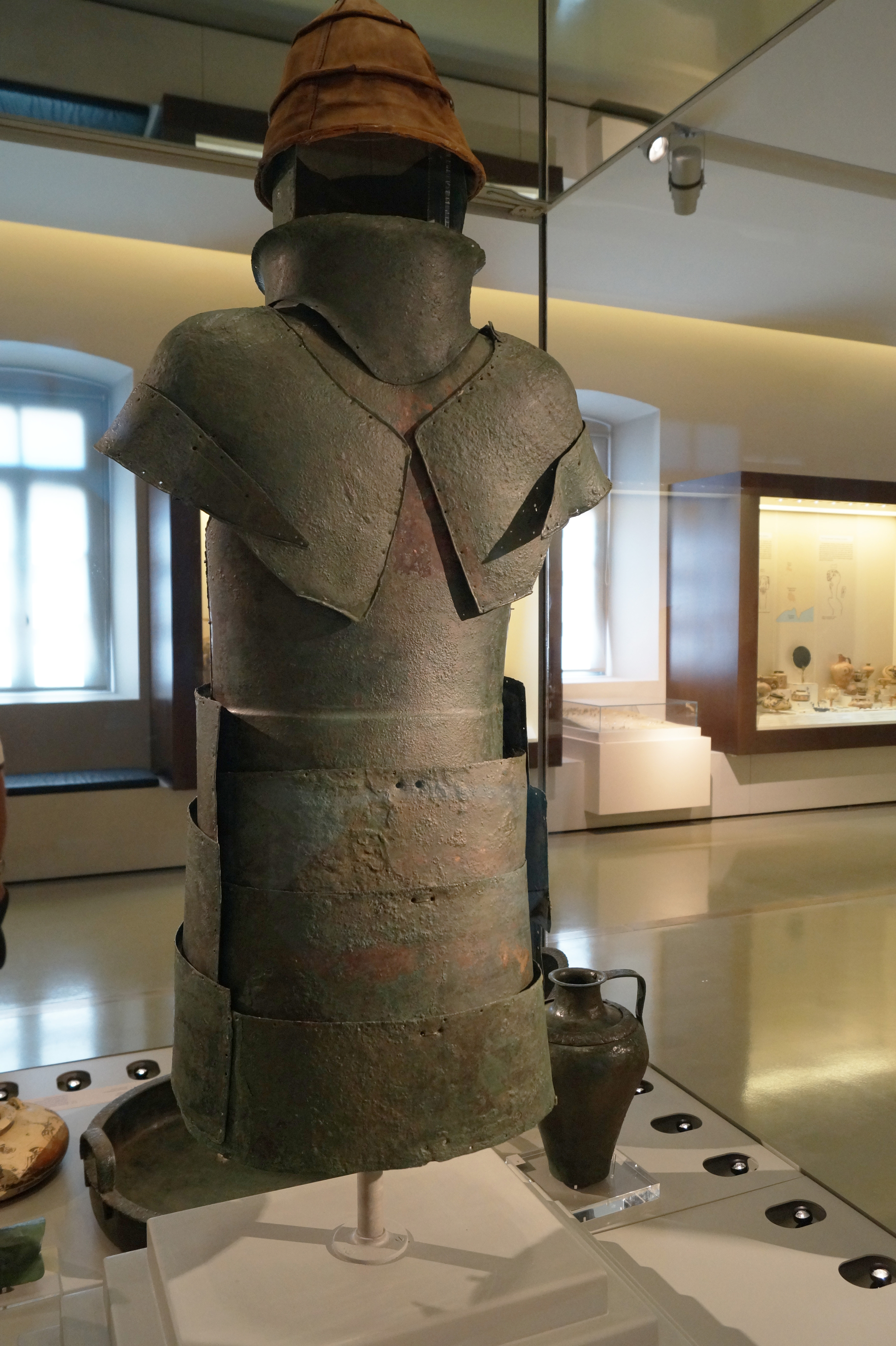 Archaeological Museum of Nafplio: Back view of Mycenaen armour and boar's tusk helmet from chamber tomb 12 of Dendra cementery (end of 15th century BC).